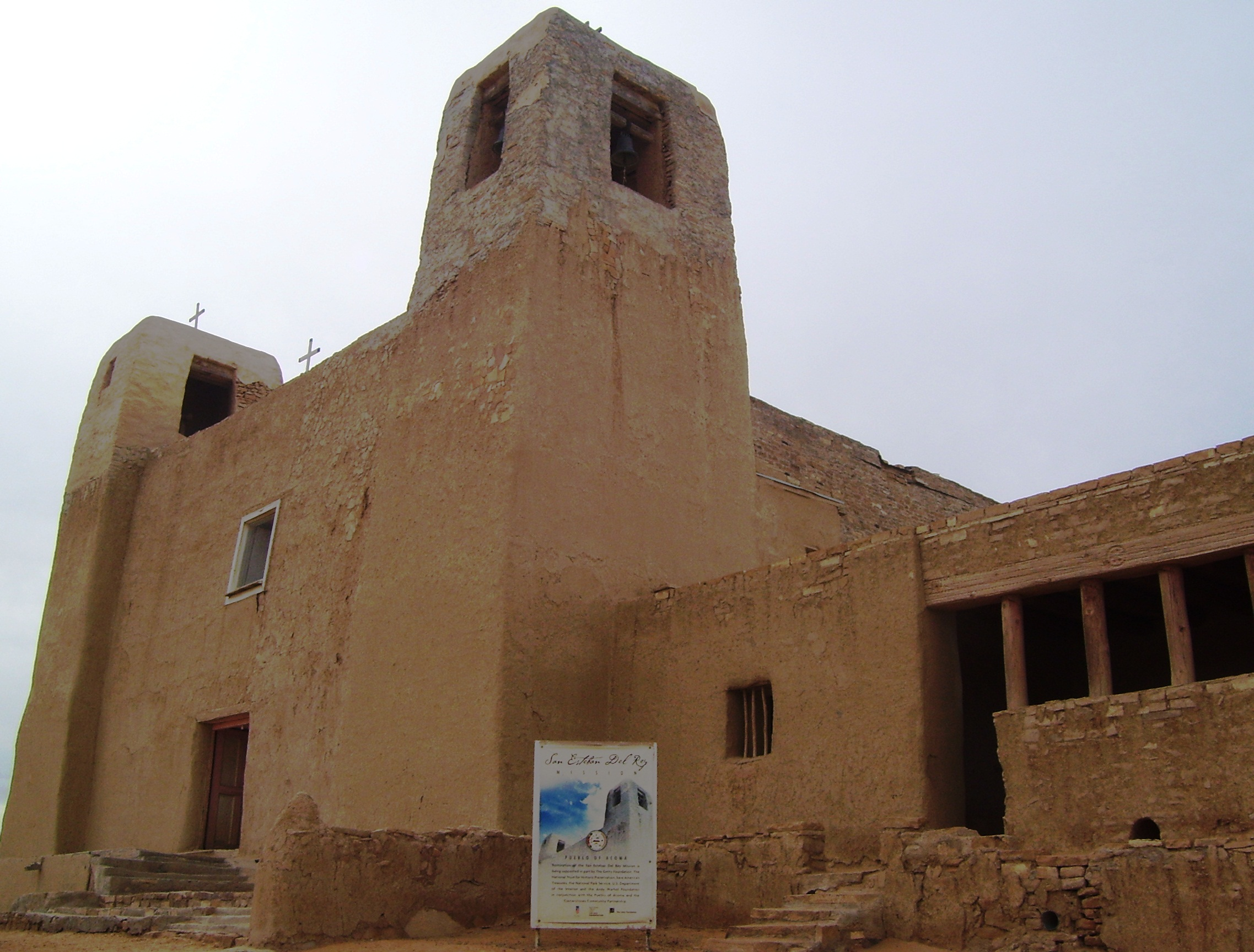 The Mission Church in the Sky City of Acoma Pueblo.